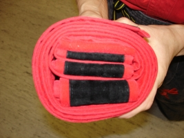 Folded black belt of a Kung Fu Toa Master. The three different sized crinkles mean "Think well. Talk well. Act well."